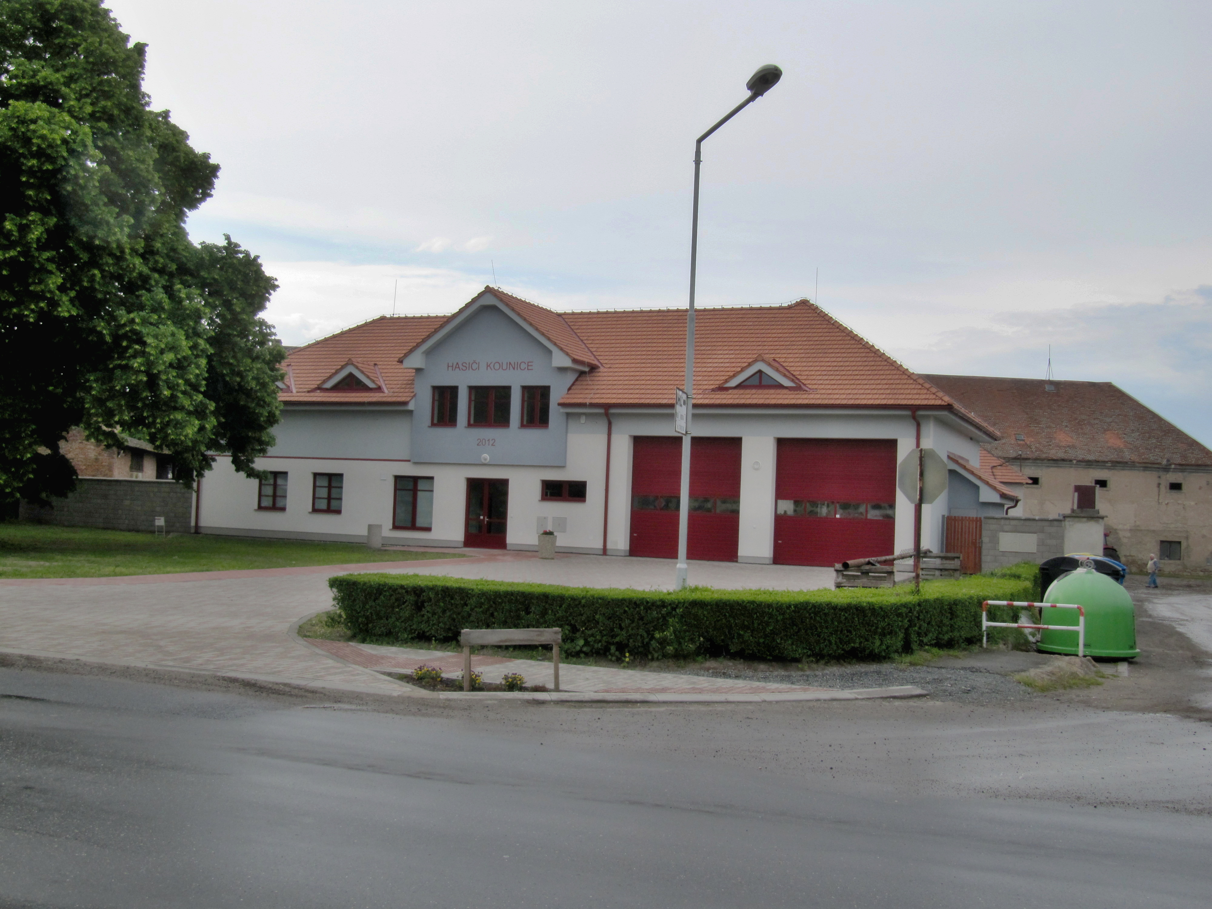 Kounice, Nymburk District, Czech Republic.